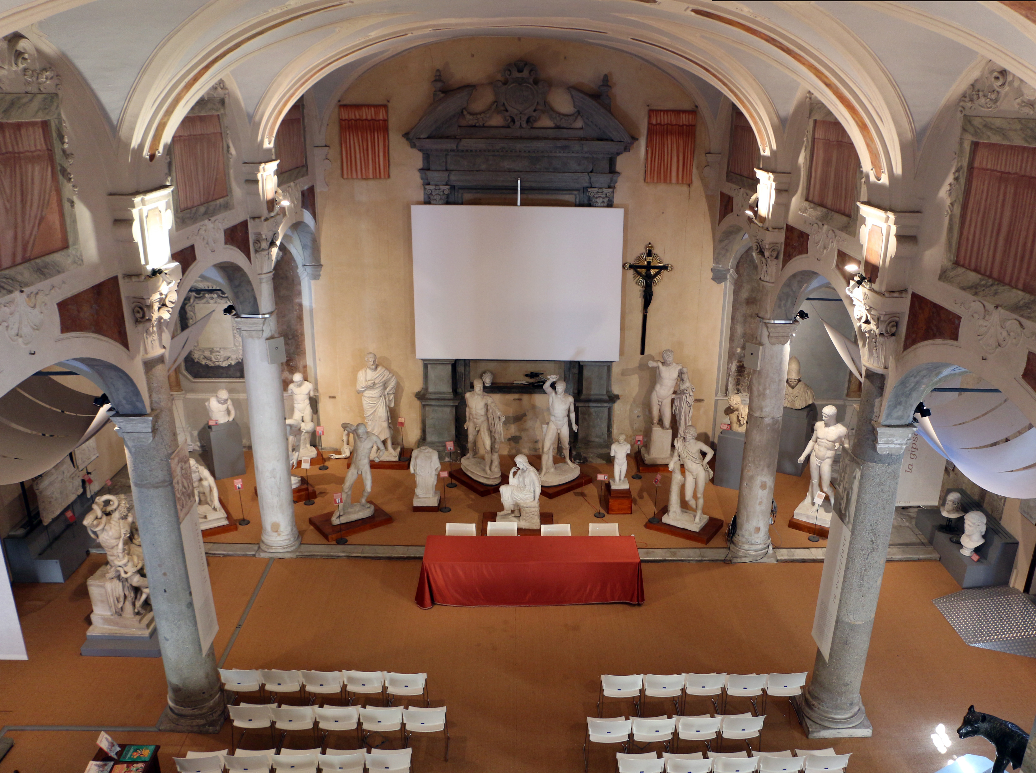 San Paolo all'Orto (Pisa)